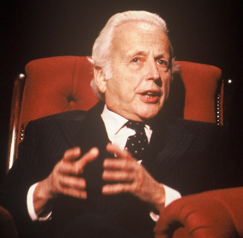 Peregrine Worsthorne appearing on After Dark on 21 October 1989. Other guests included Andrew Morton and Archduke Karl von Habsburg.